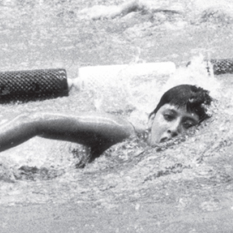 María Teresa Ramírez, winner of bronze medal on the 1968 Summer Olympics.